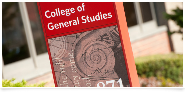 Located right outside of the CGS building.